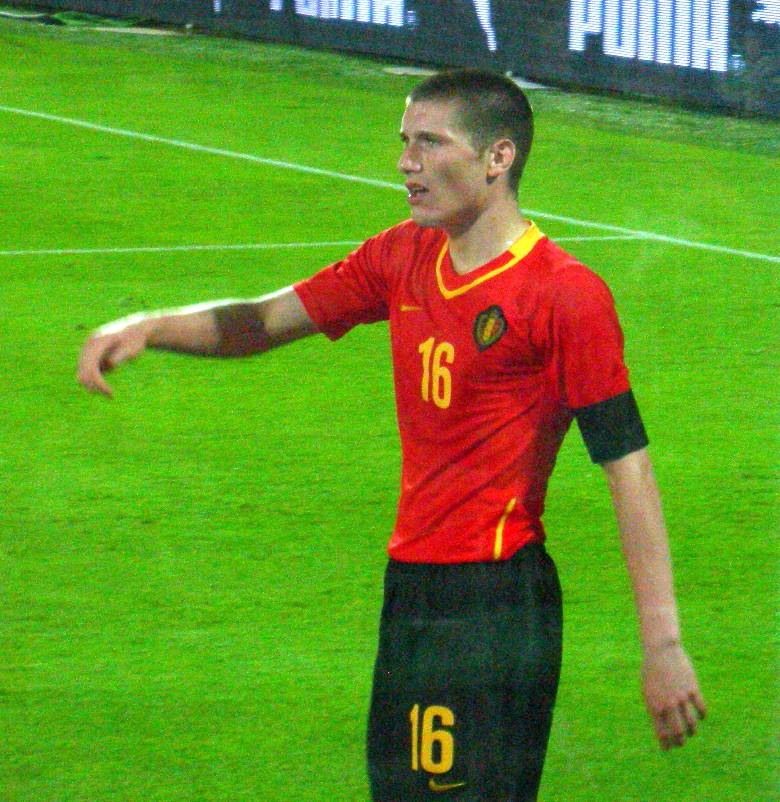 Player photo, made during the friendly football match Italy vs Belgium, played May 30, 2008 in Florence (Italy)